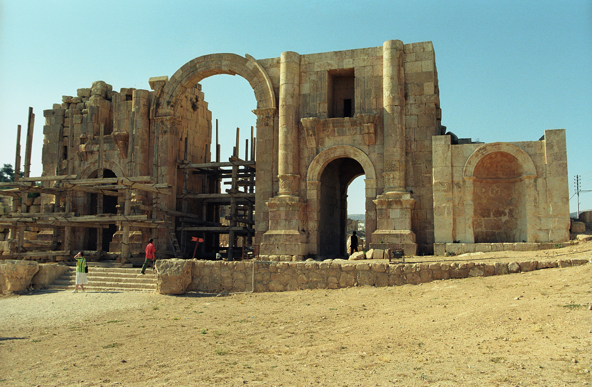 The Triumphal Arch (Hadrian's Arch) in the south of the Roman city of Gerasa (now Jerash) in Jordan. The tripartite triumphal arch was erected in commemoration of emperor Hadrian's visit to the city in 129/130 AD. The building is 25 m wide and ca. 21.5 m high. The main entrance is 6 m wide and 11 m high, while the side entrances are 2.5 m wide and 5 m high. The upper part above the peak of the main arch has been practically completely restored by the Department of Antiquities of Jordan by reusing the ancient ashlar around the arch (Source: Franz Rainer Scheck: Jordanien. Völker und Kulturen zwischen Jordan und Rotem Meer, DuMont Kunstreiseführer, Köln 1997, ISBN 3-7701-3979-8, p.163f.).